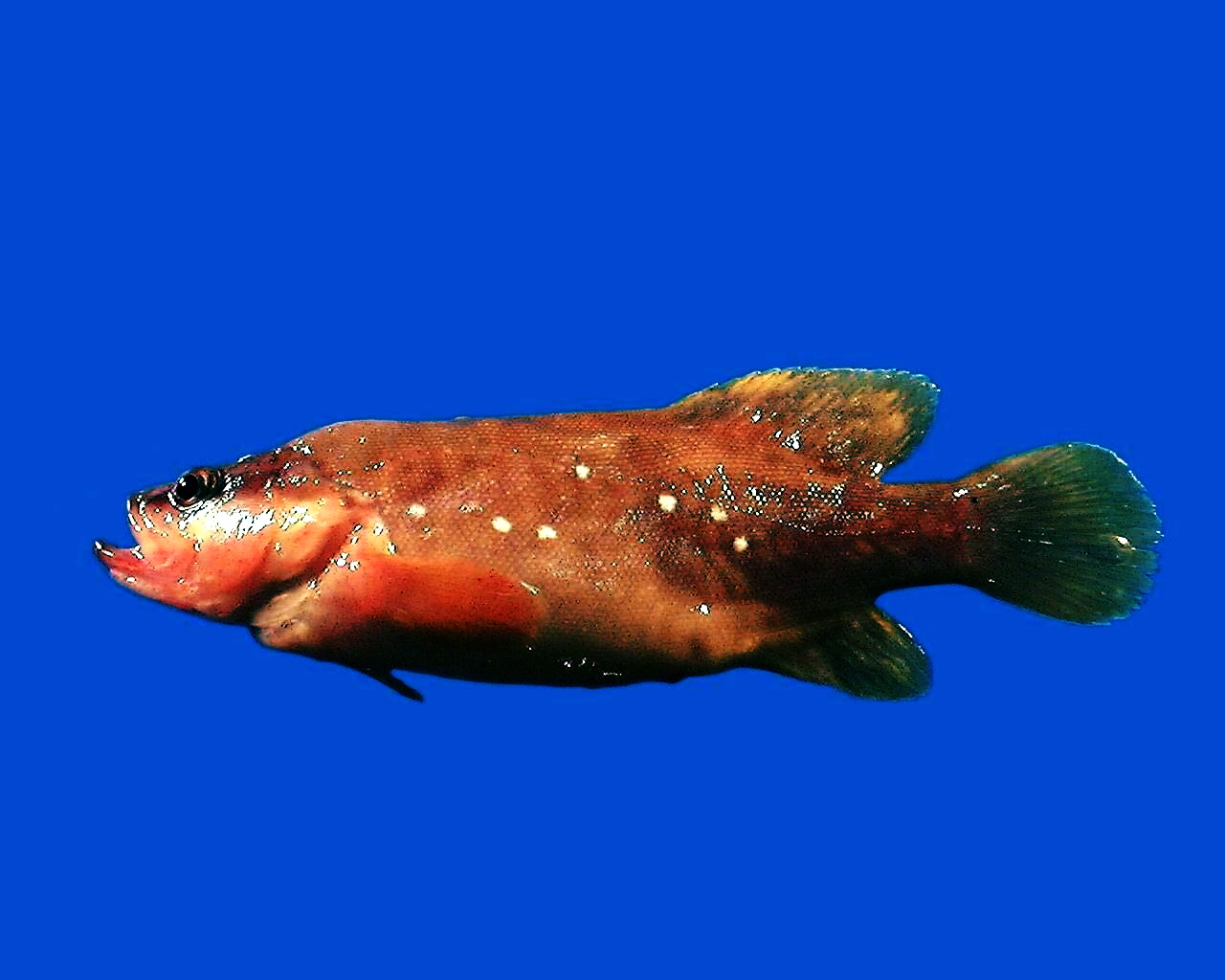 Whitespotted soapfish ( Rypticus maculatus ). Gulf of Mexico.